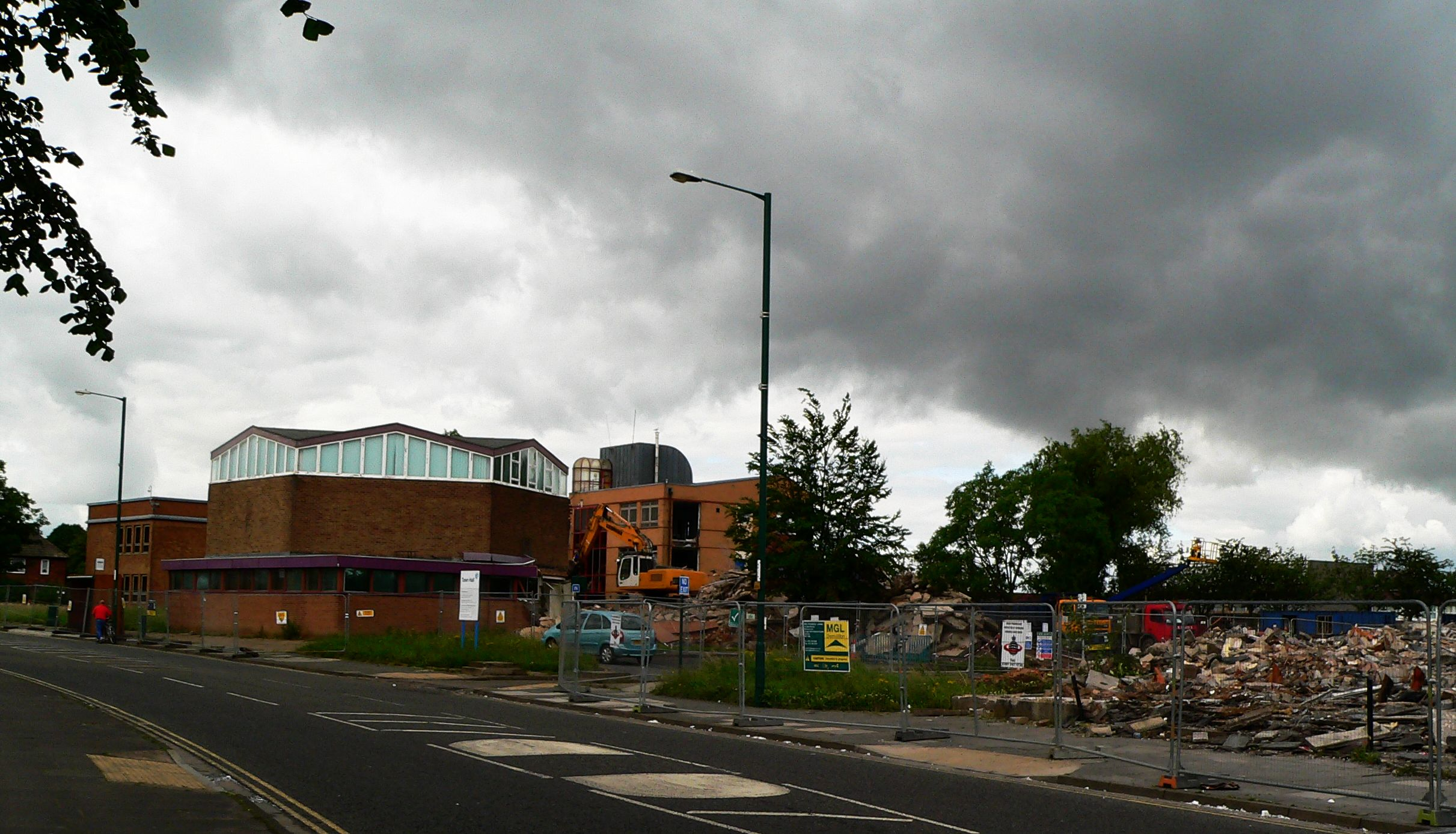 Redcar and Cleveland Town Hall during demolition.